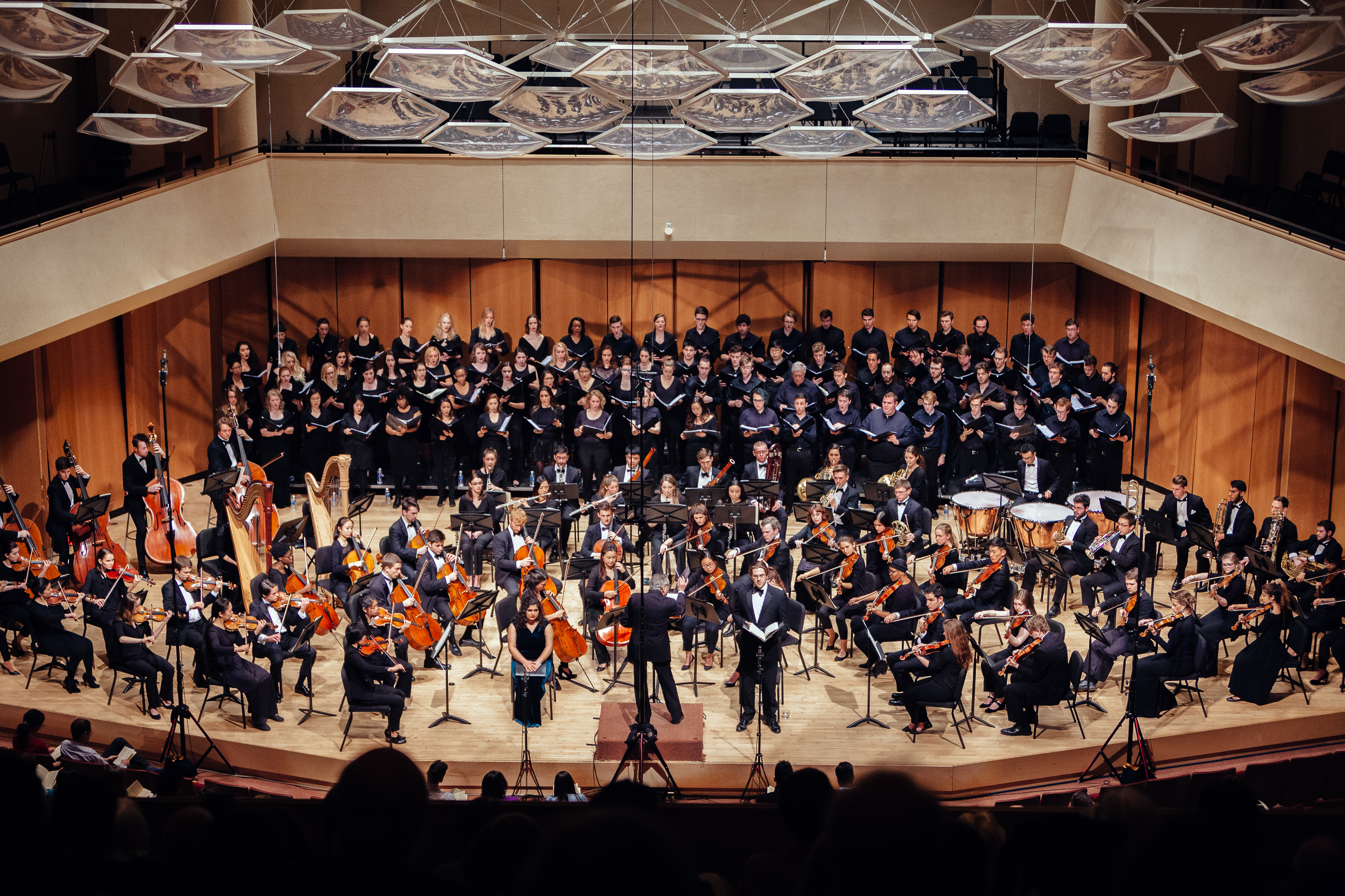 Pick Stage